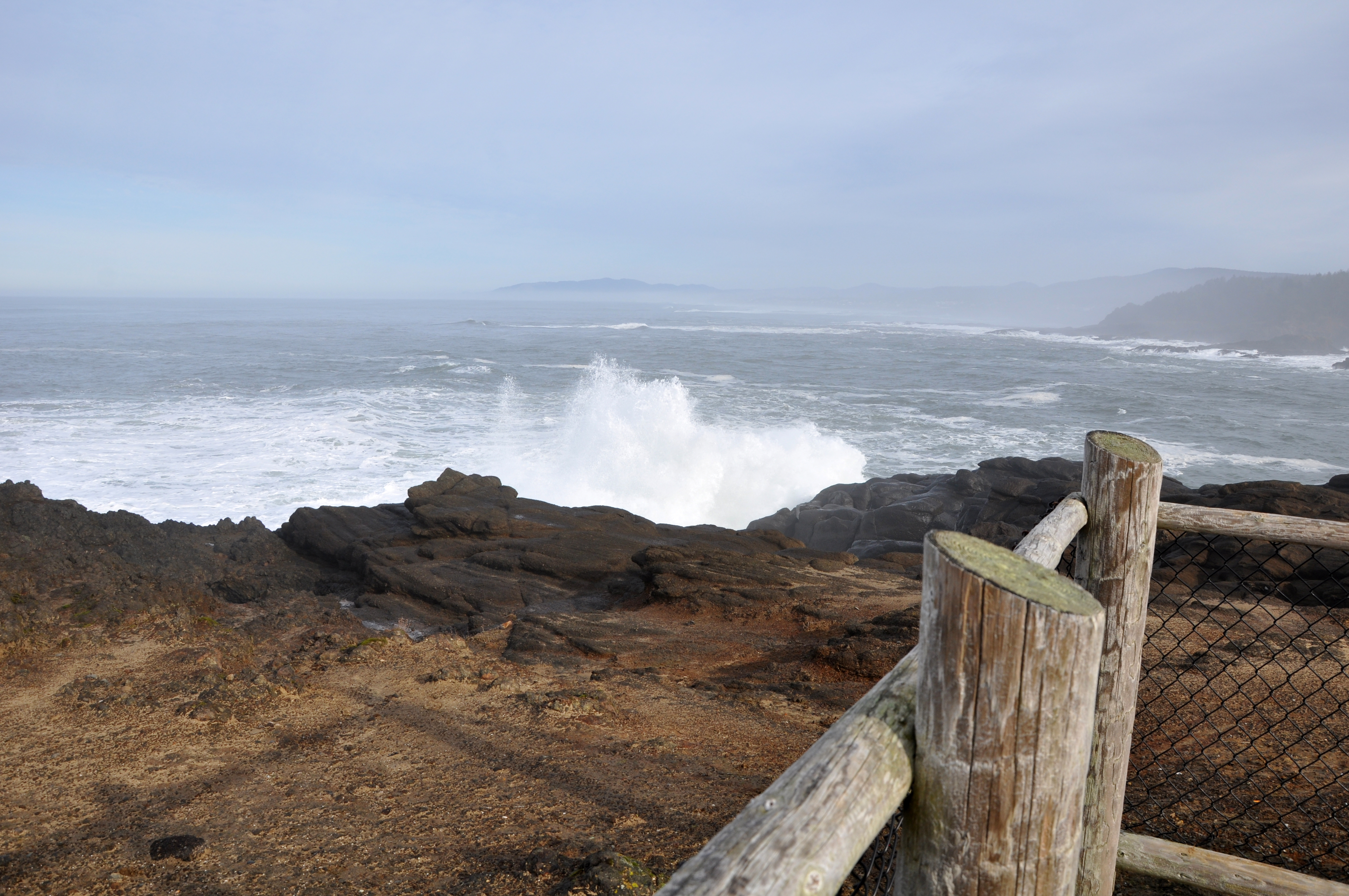 Boiler Bay State Scenic Viewpoint south of Lincoln City in the U.S. state of Oregon